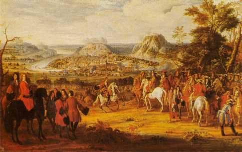 Siege of Besançon (February 1674)